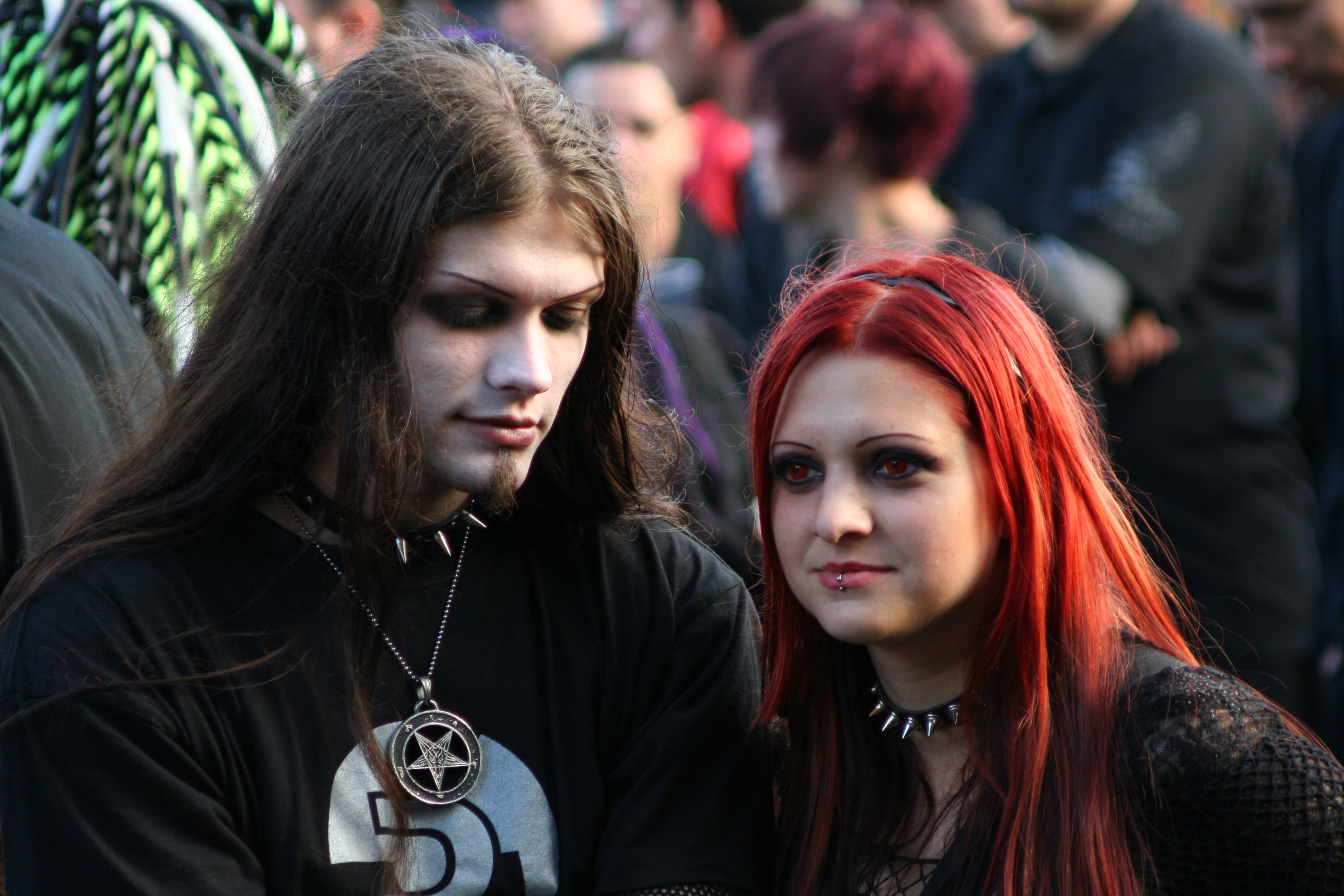 Castle Party 2007